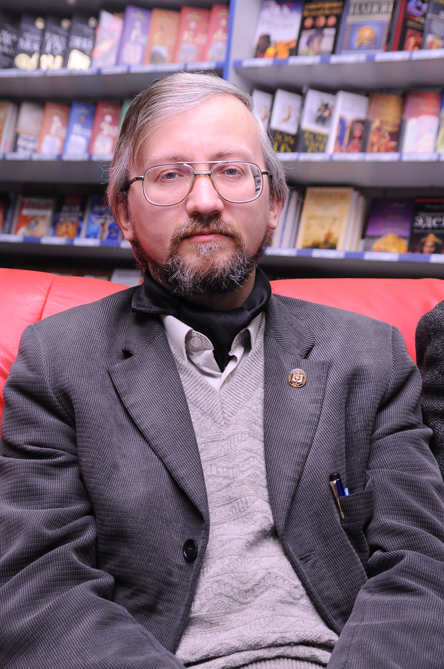 Vladislav Adolfovitch Rusanov is a Ukrainian fantasy writer, kandidat of geologic sciences